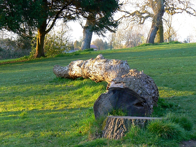 Coate Water country park, Swindon; A dead tree has been felled and left for nature to take its course and for it to be colonized by saprophytes. Beyond is a glimpse of the lake that is the main feature of the country park.